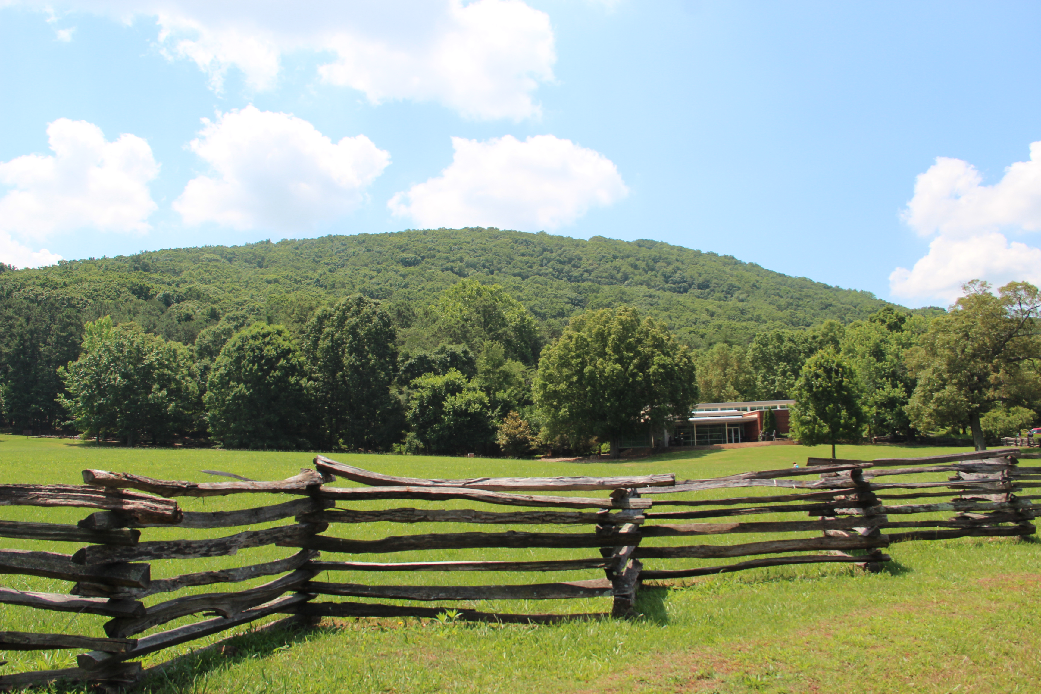 Kennesaw, Cobb County, Georgia